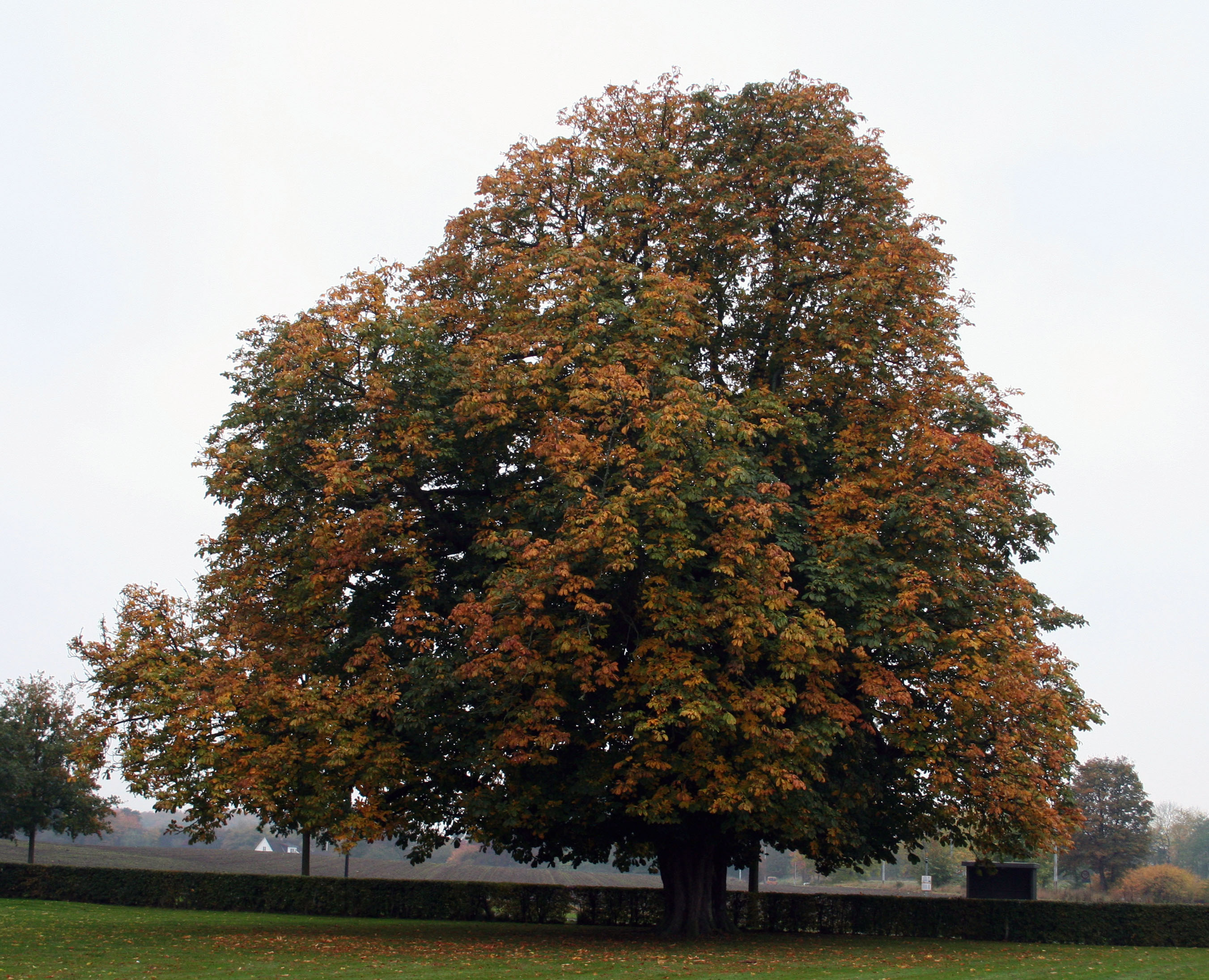 The tree is an Aesculus hippocastanum at the baroque garden of Gl. Holtegaard, Denmark